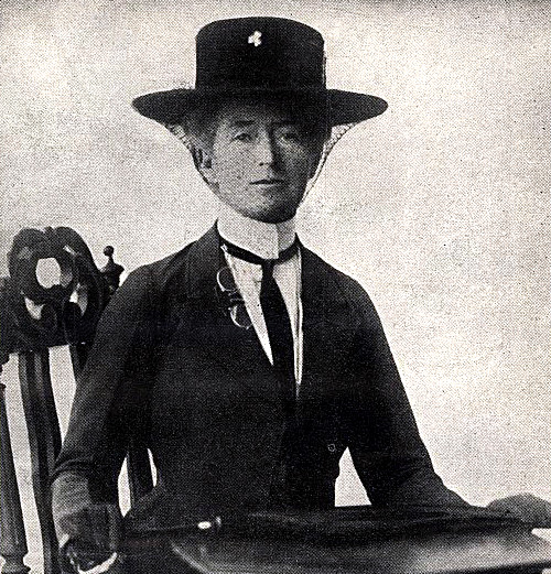 Daisy Bates - "Mrs Daisy M. Bates who is in charge of the Native Camp, Ooldea, East-West Railway, 1921 Aug. 27"